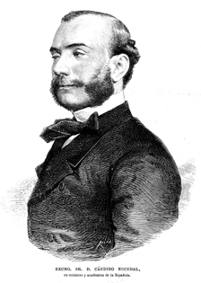 Spanish Politician Cándido Nocedal